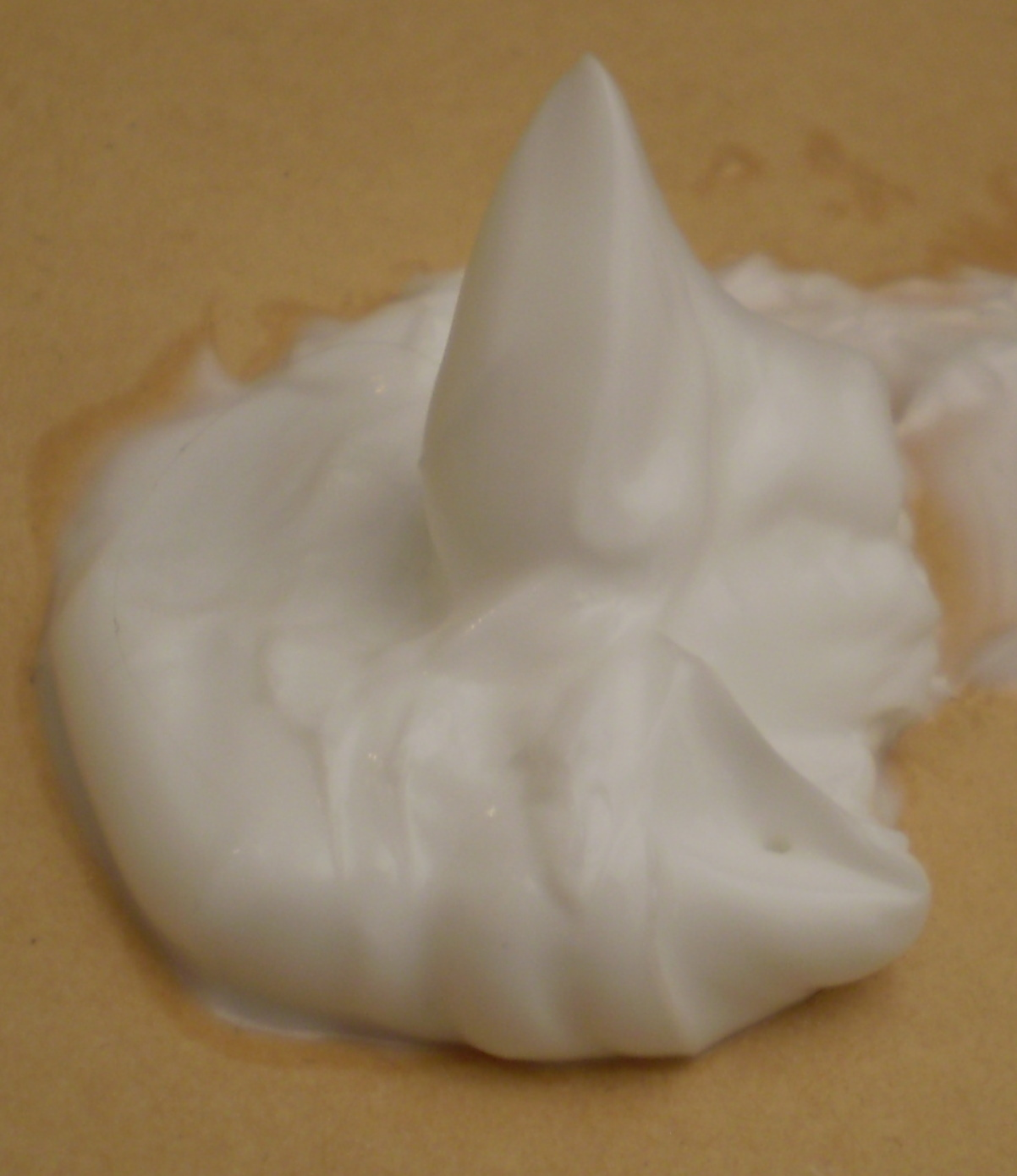 Shaped moisturized